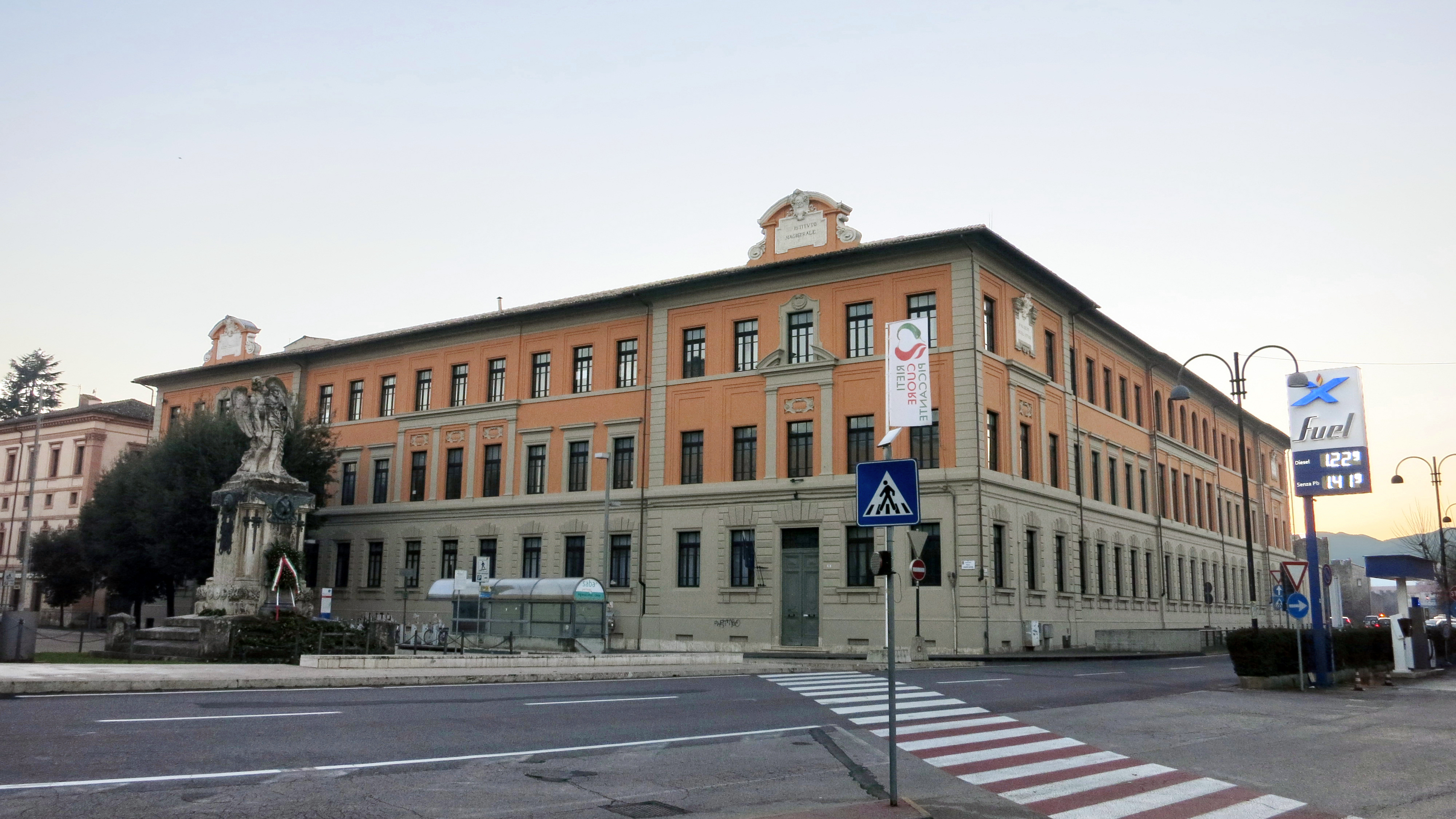 Palazzo degli studi (built in 1926 on a project by architect Angelo Guazzaroni), house of Liceo Classico Marco Terenzio Varrone and Istituto Magistrale Elena Principessa di Napoli high schools - Rieti, Lazio, Italy